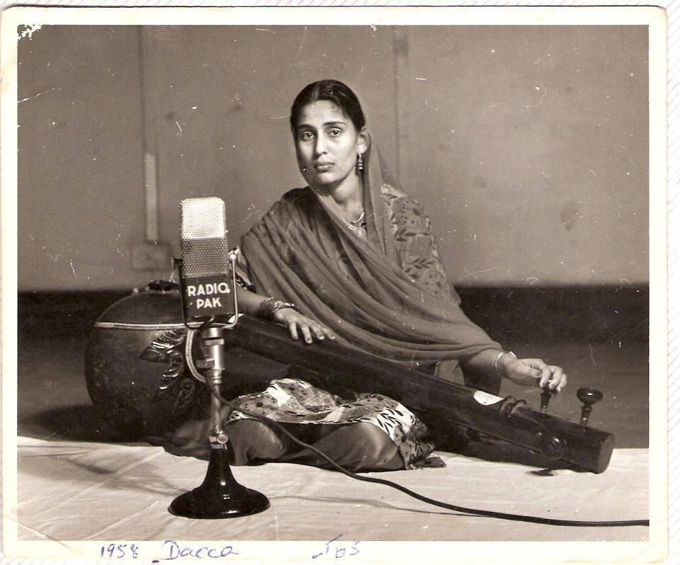 Suraiya Multanikar at Dhaka Radio Station in 1958